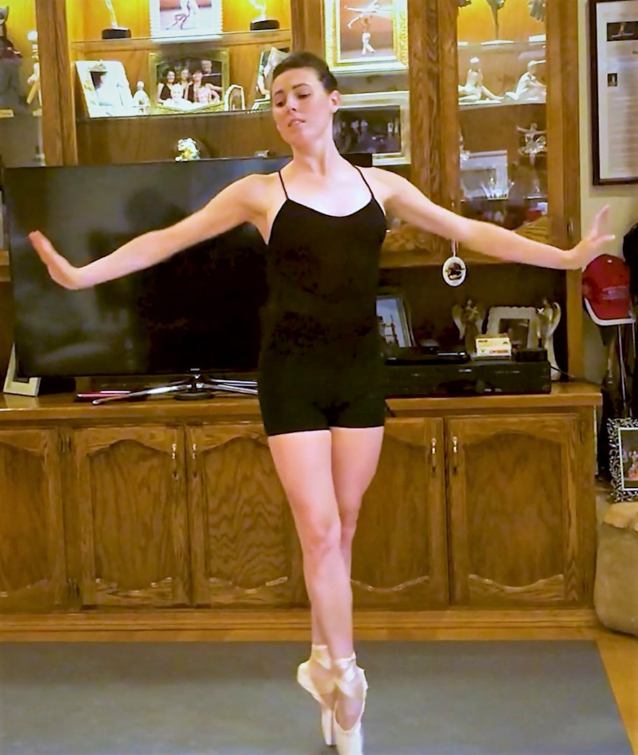 Swans For Relief - Tiler Peck, New York City Ballet, USA 32 premier ballerinas from 22 dance companies in 14 countries perform Le Cygne (The Swan) variation sequentially in support of Swans for Relief. Organized by Misty Copeland and Joseph Phillips, 100% of the funds raised will be distributed to each dancer’s company’s COVID-19 relief fund, or other arts/dance-based relief fund in the event that a company is not set up to receive donations. To donate please visit, Ballet companies are largely dependent on revenue from performances to pay their dancers and fund their operations, but due to the coronavirus pandemic, all performances have been halted. Consequently, many dancers are unable to depend on paychecks and are facing the hardship of paying rent and/or buying food and other necessities. Le Cygne (The Swan) with music by Camille Saint-Saëns, performed by cellist Wade Davis (USA), with choreography by Michel Fokine by kind permission of the Fokine Estate-Archive.